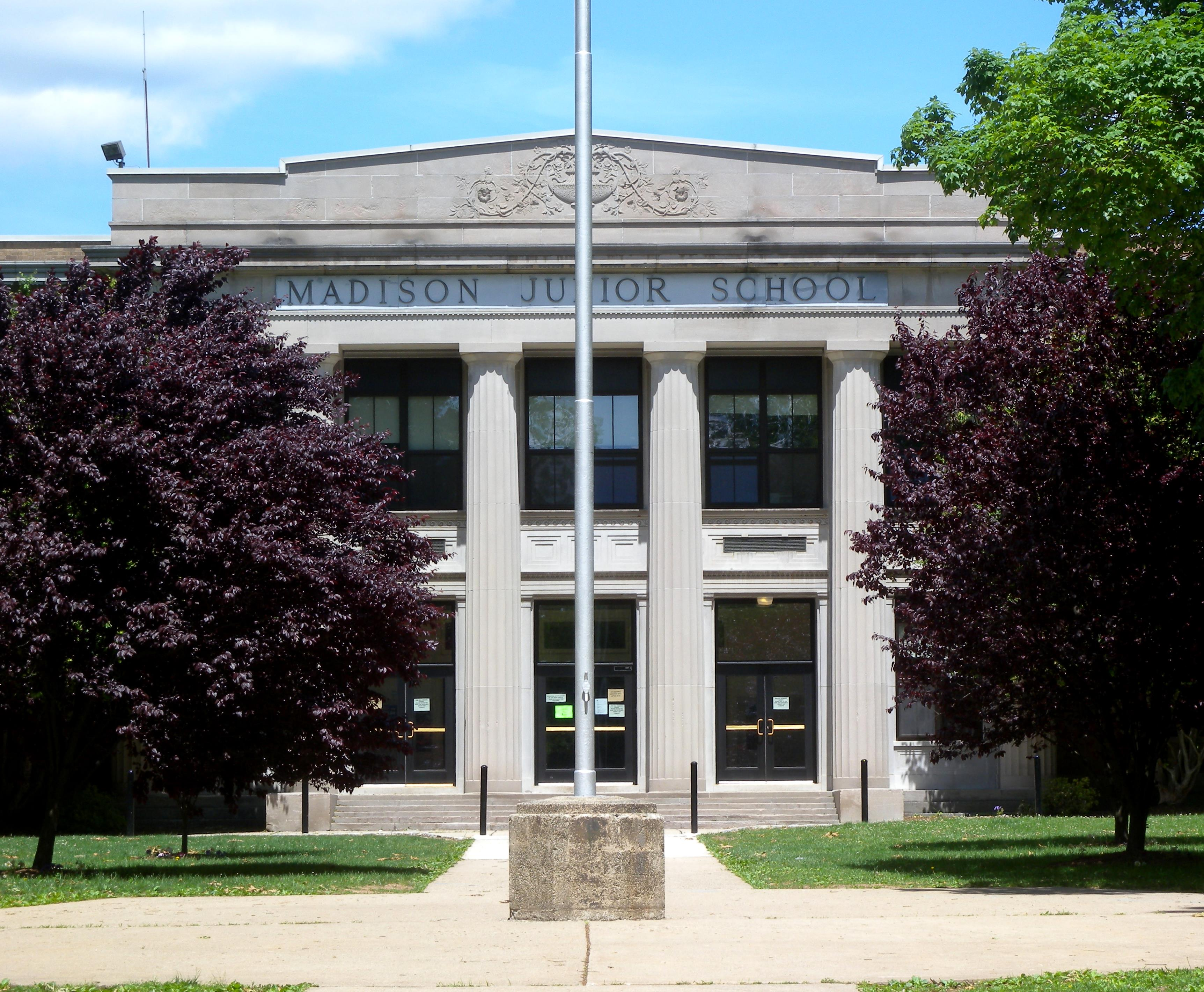 Looking northeast at Madison Junior School on a mostly sunny midday. Photographer misunderstood the name of the school, thus misnamed the file.